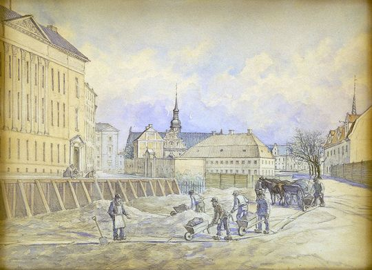 Holmens Kanal in Copenhagen, Denmark, is filled and turned into a street. 1864.